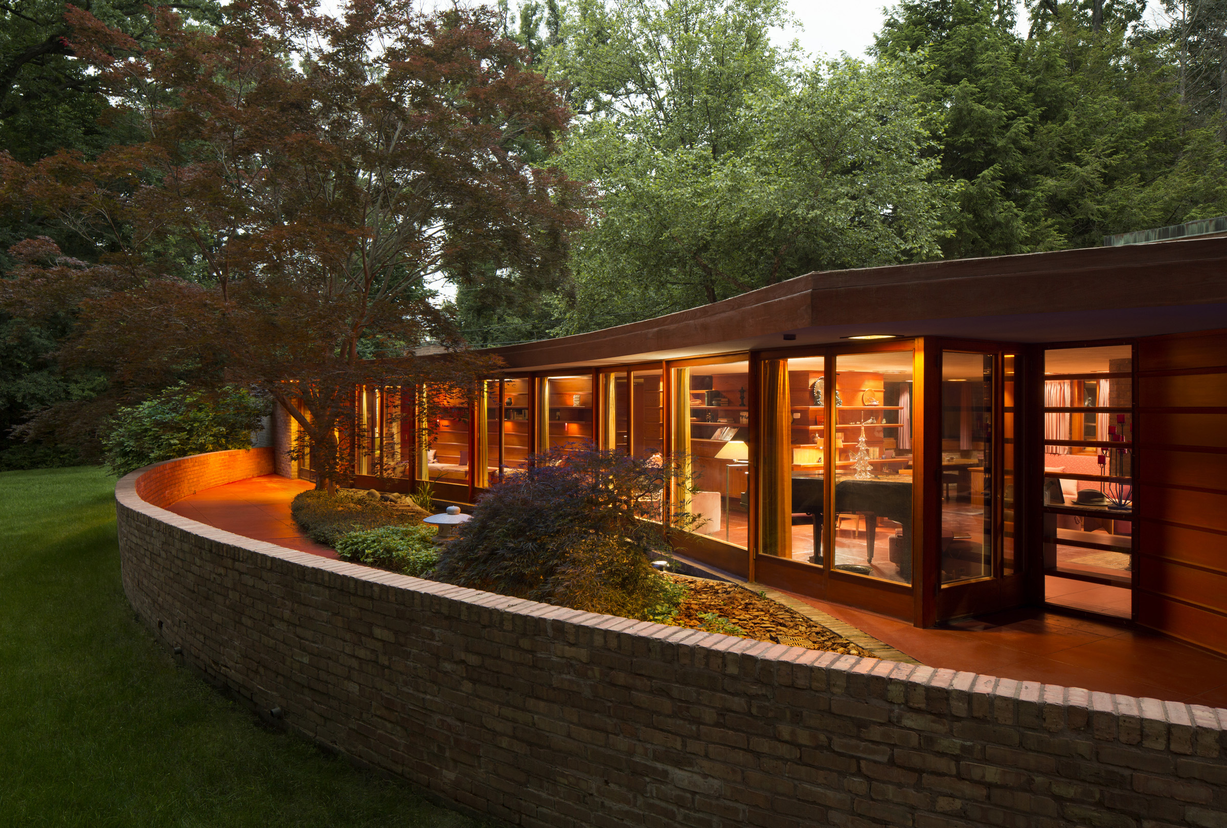 View of the back curved window wall, one of the longest continual window walls in a Frank Lloyd Wright designed home.